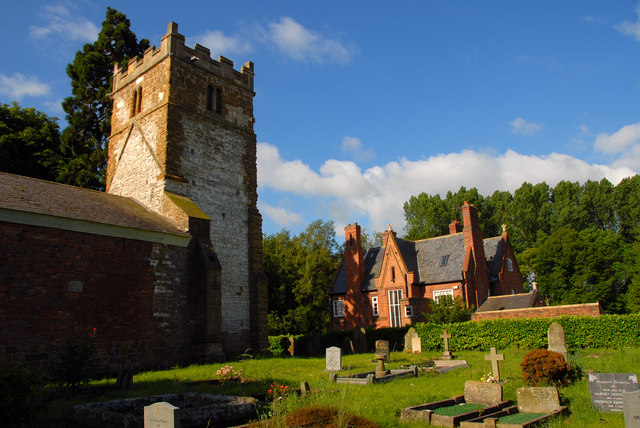 Church and former vicarage Grainsby church appears to dwarf the old vicarage. In fact the latter is a magnificently large example of the genre.